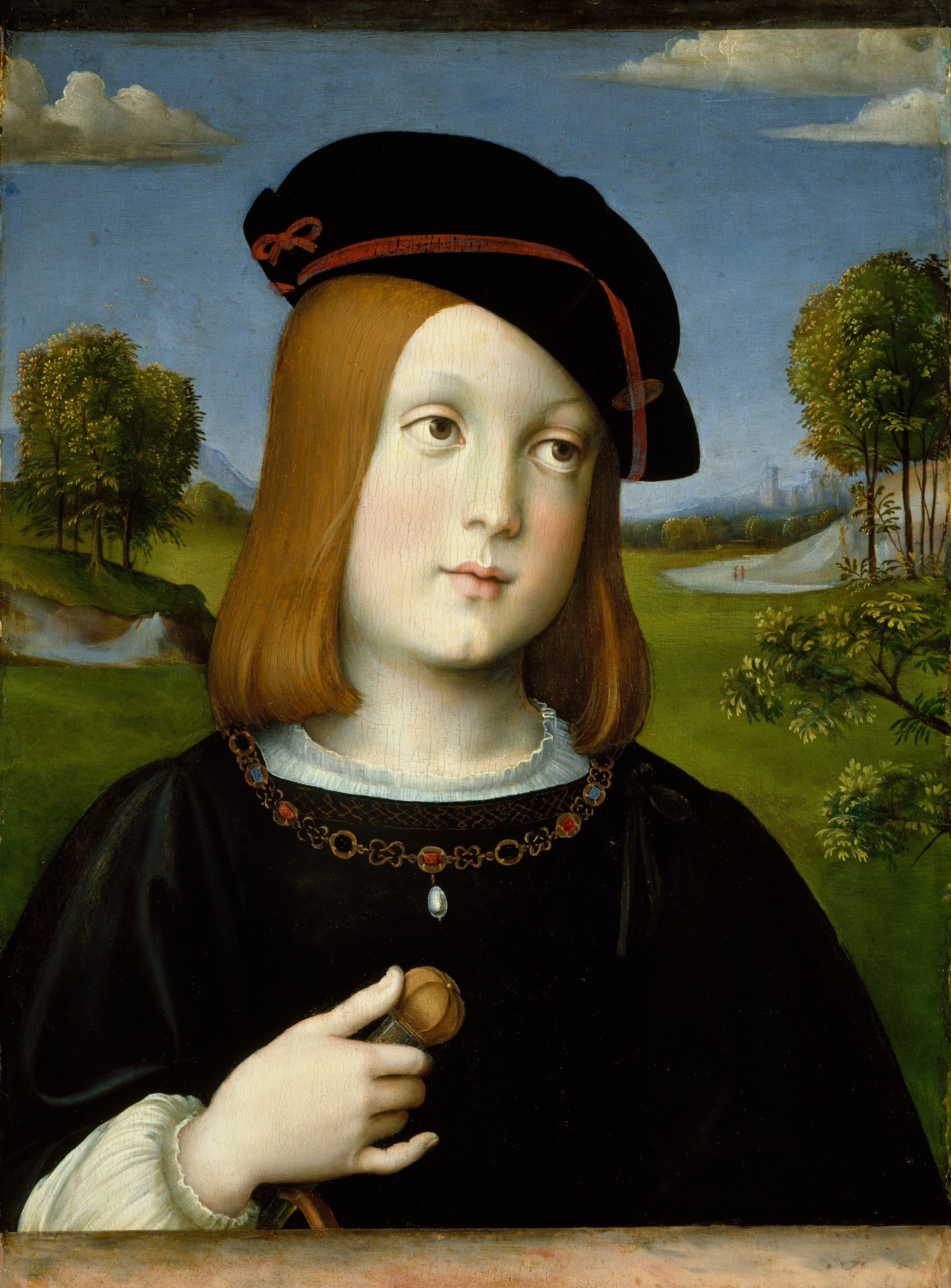 Portrait of Federico II Gonzaga, Duke of Mantua, around age 10. The painting, done soon after he became a hostage, was reportedly finished in 12 days.